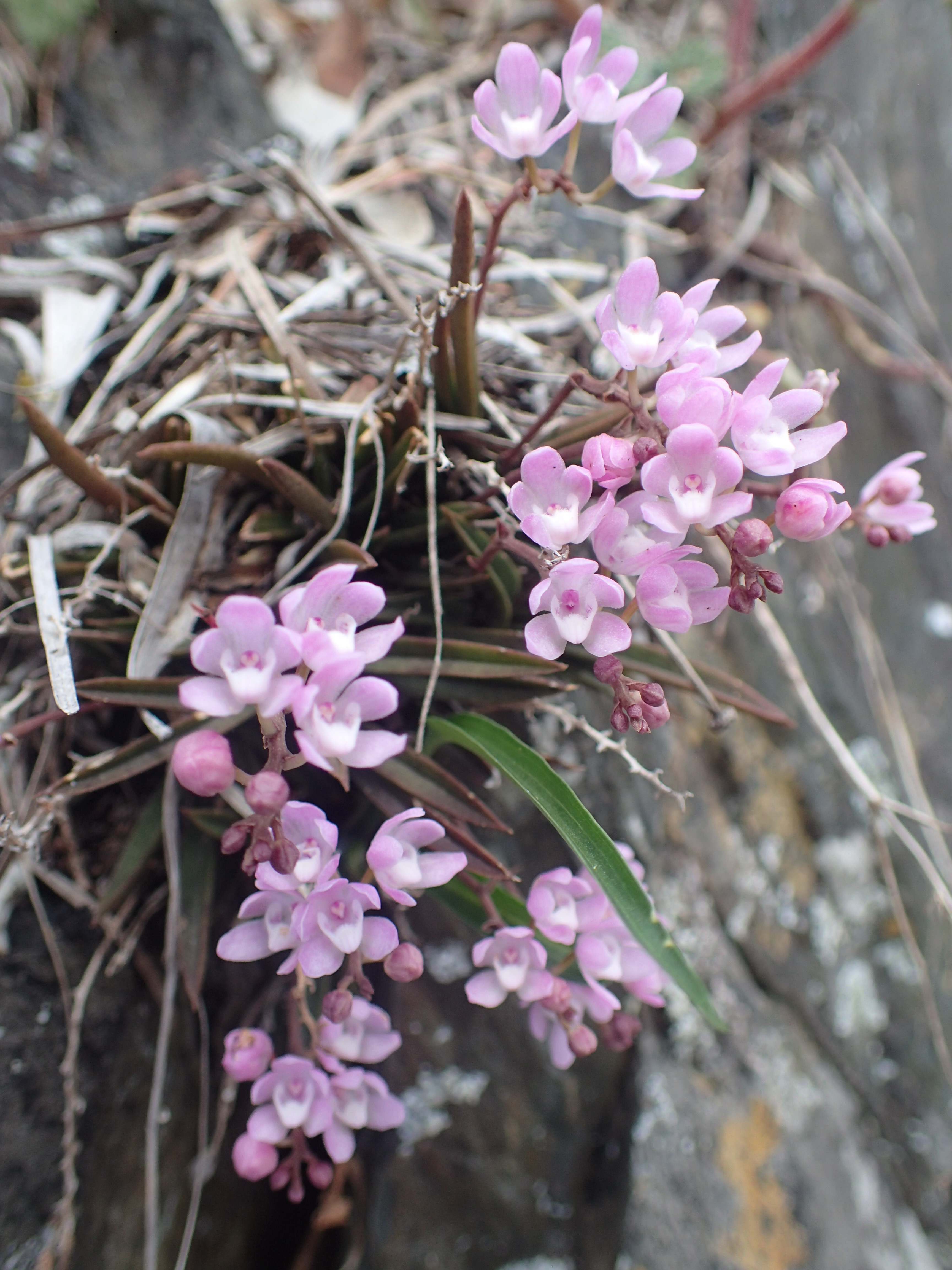 Sarcochilus ceciliae grwoing near the Wollomombi River